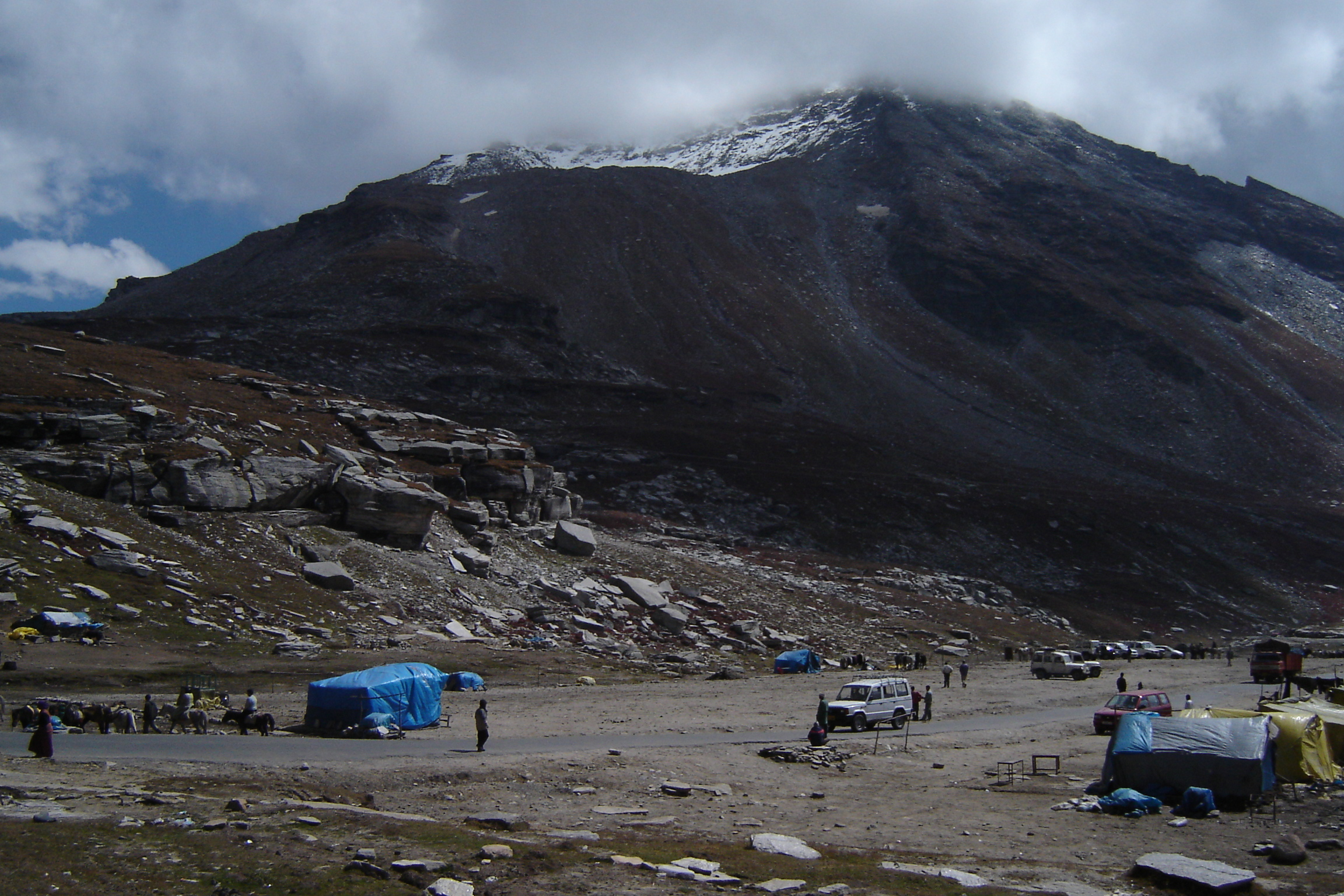 Rohtang pass from road side. nice picture.